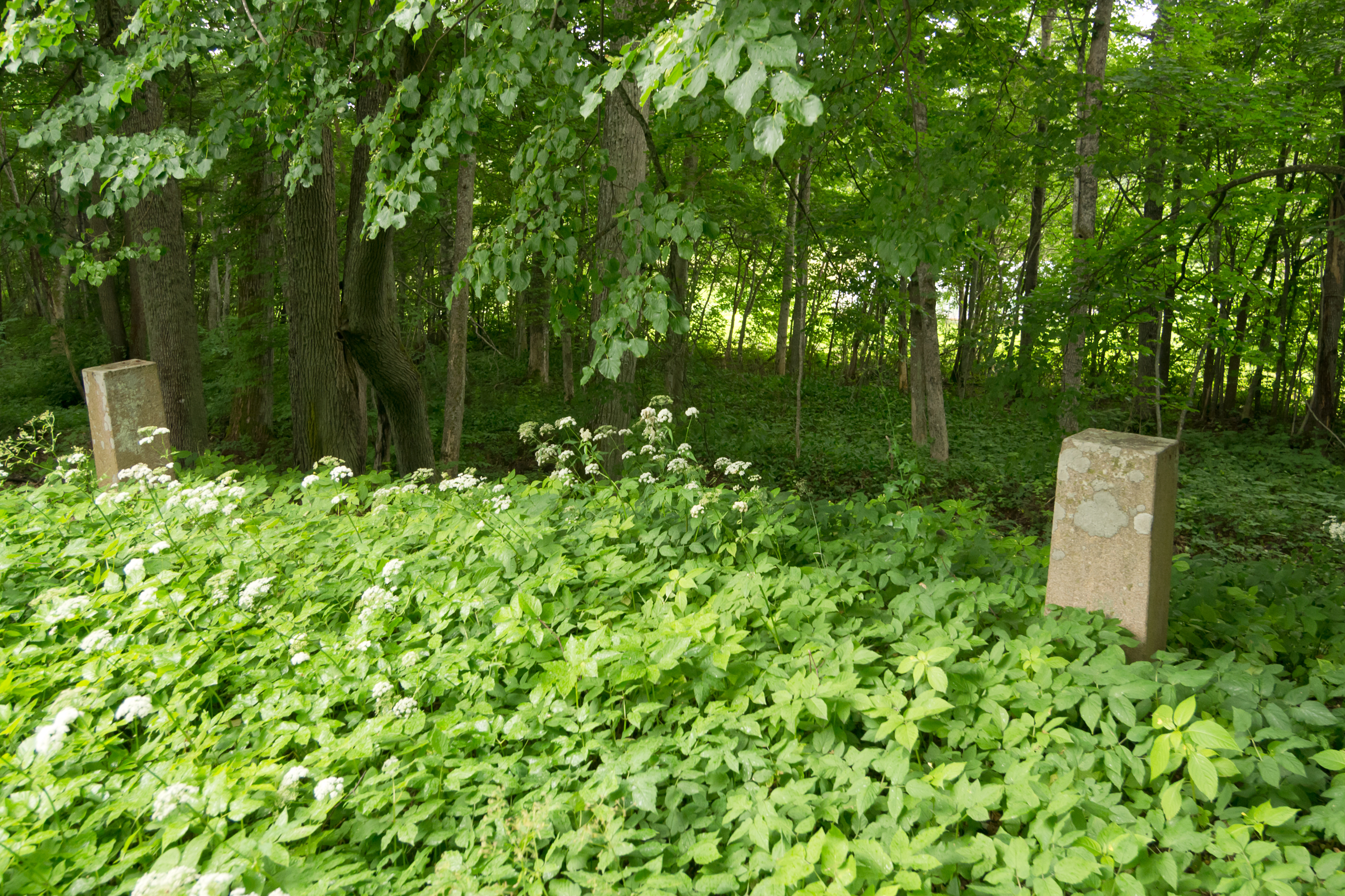 The location of Stael von Holstein tomb. Former size of the tomb is marked with granite posts.